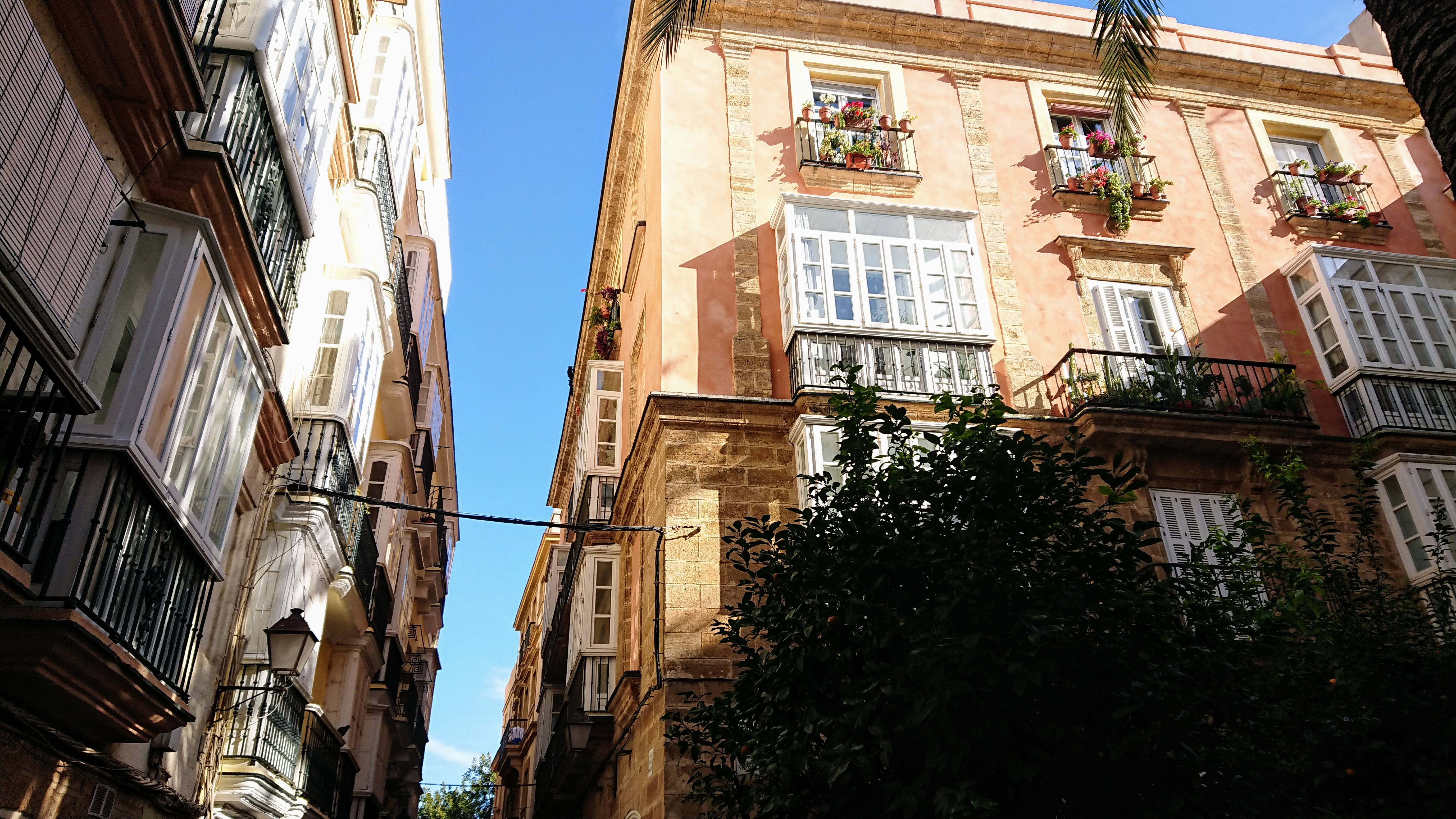 Mendizabal Square, Cádiz (Spain)